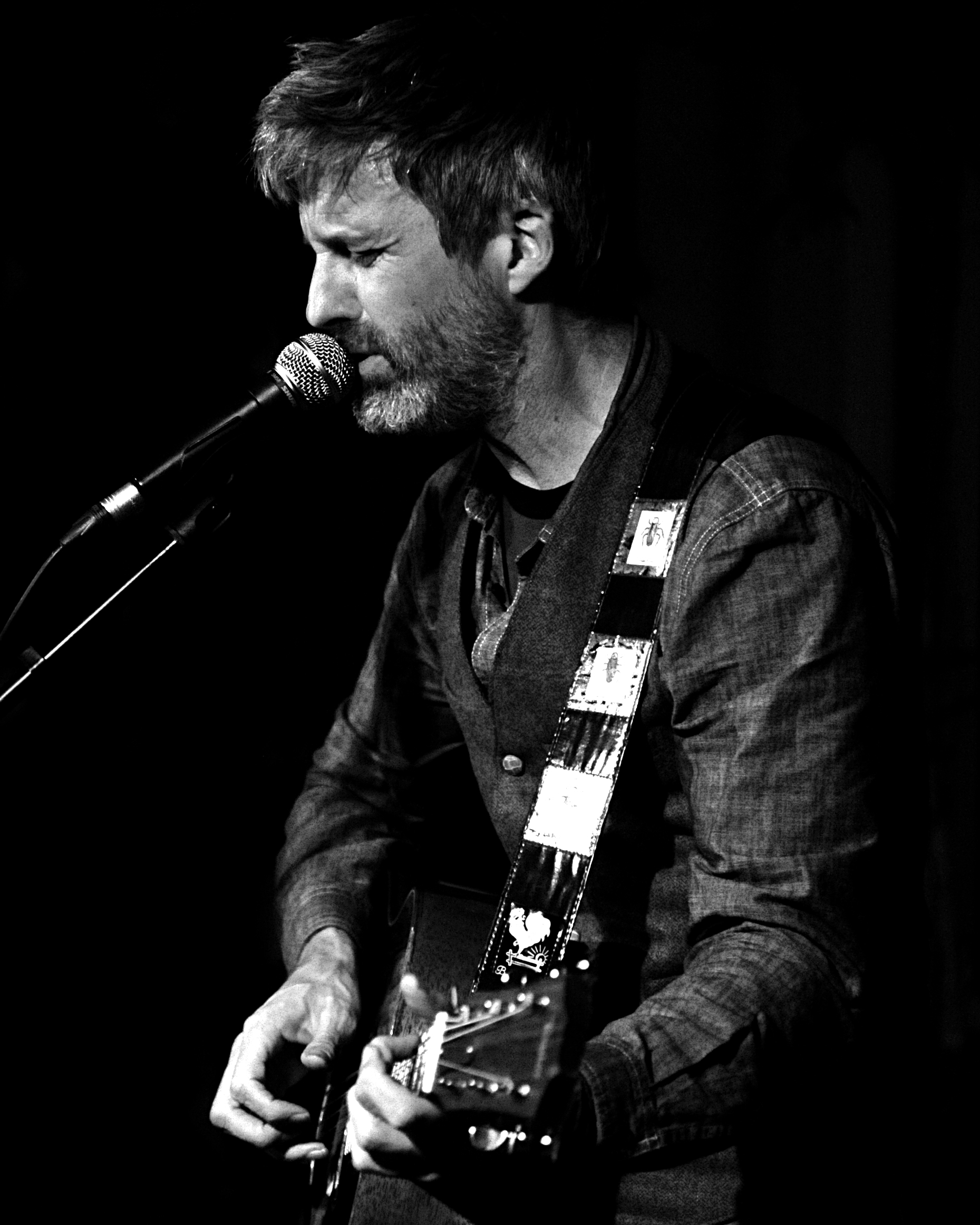 Steve Poltz plays in The Cafe Continental, Gourock. October 2012